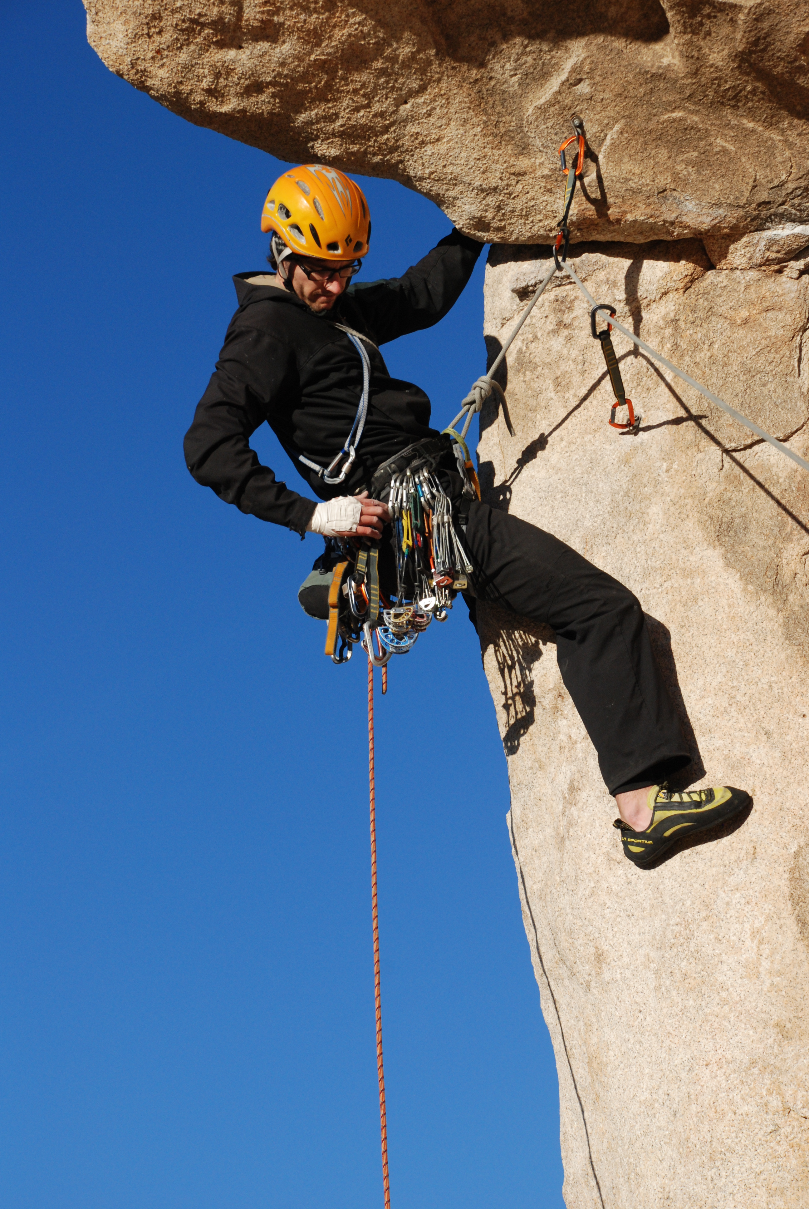 Joshua Tree National Park: Climber on last pitch of North Overhang (5.9) on Intersection Rock at Hidden Valley Campground.